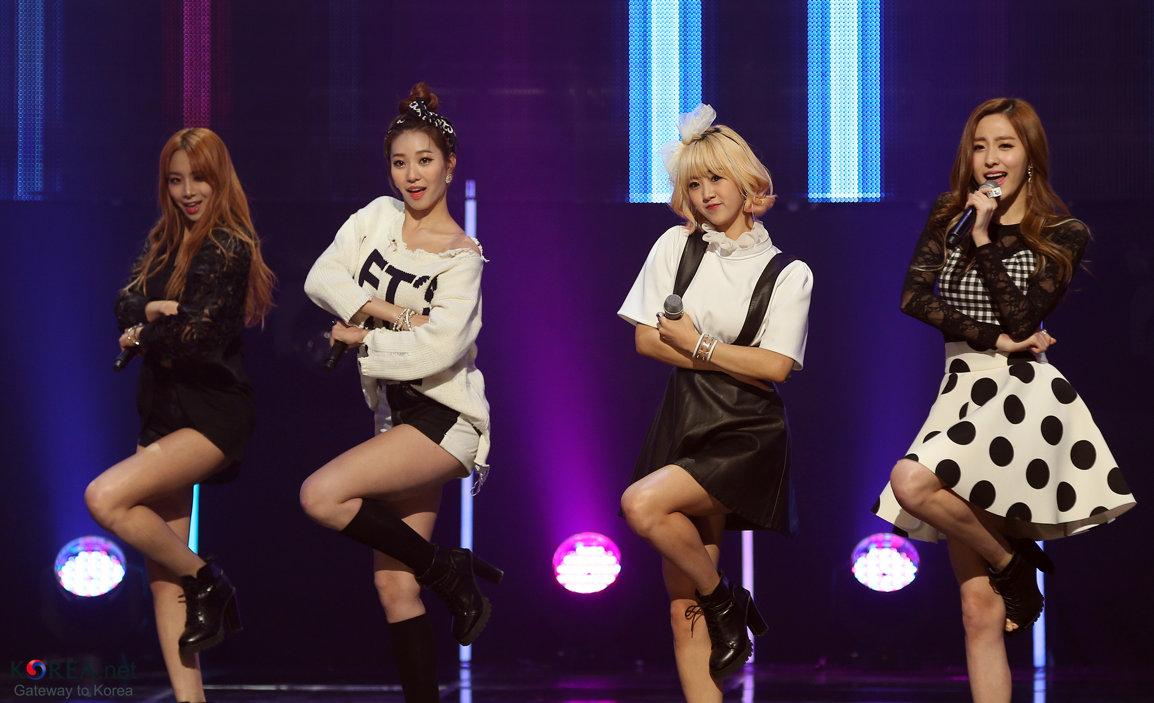 Mcountdown BESTie ‘Thank u very much’ CJ E&M Center, Sangam-dong, Mapo-gu, Seoul 2014.03.06. Ministry of Culture, Sports and Tourism Korean Culture and Information Service ( Jeon Han 엠카운트다운 생방송 베스티 ‘Thank u very much’ 혜연, U JI, 다혜, 해령 2014-03-06 CJ E&M 센터 문화체육관광부 해외문화홍보원 코리아넷 전한